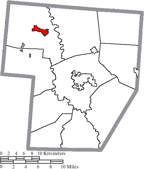 Map of the municipal and township boundaries of Fayette County, Ohio, United States, as of the 2000 census, with the location of the village of Jeffersonville highlighted. Township borders are shown only in unincorporated areas in order to differentiate incorporated and unincorporated areas more clearly.